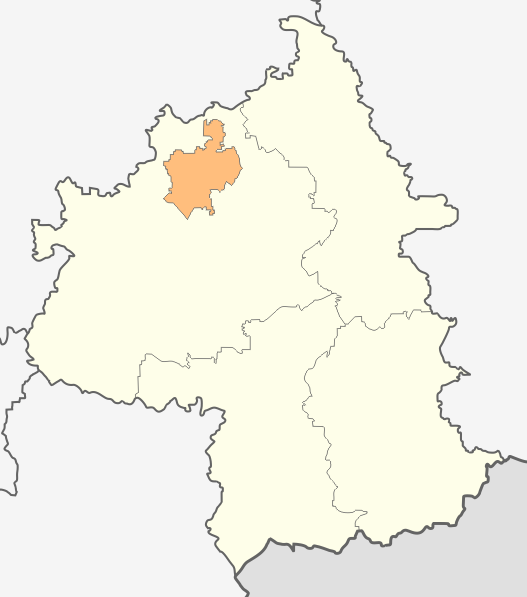 Map of Yambol municipality, Yambol Province